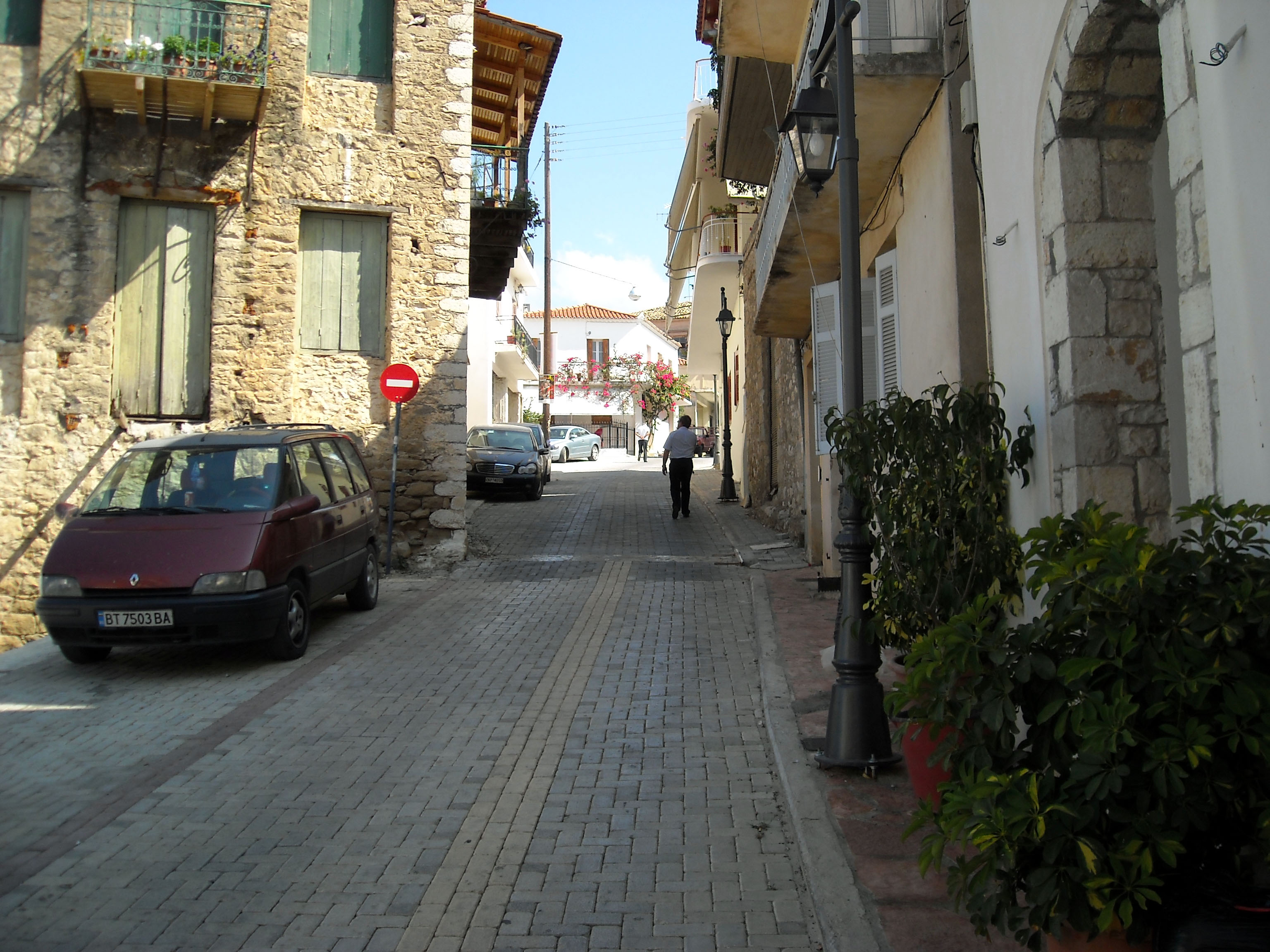 Old town of Zacharo Παλιά πόλη Ζαχάρως